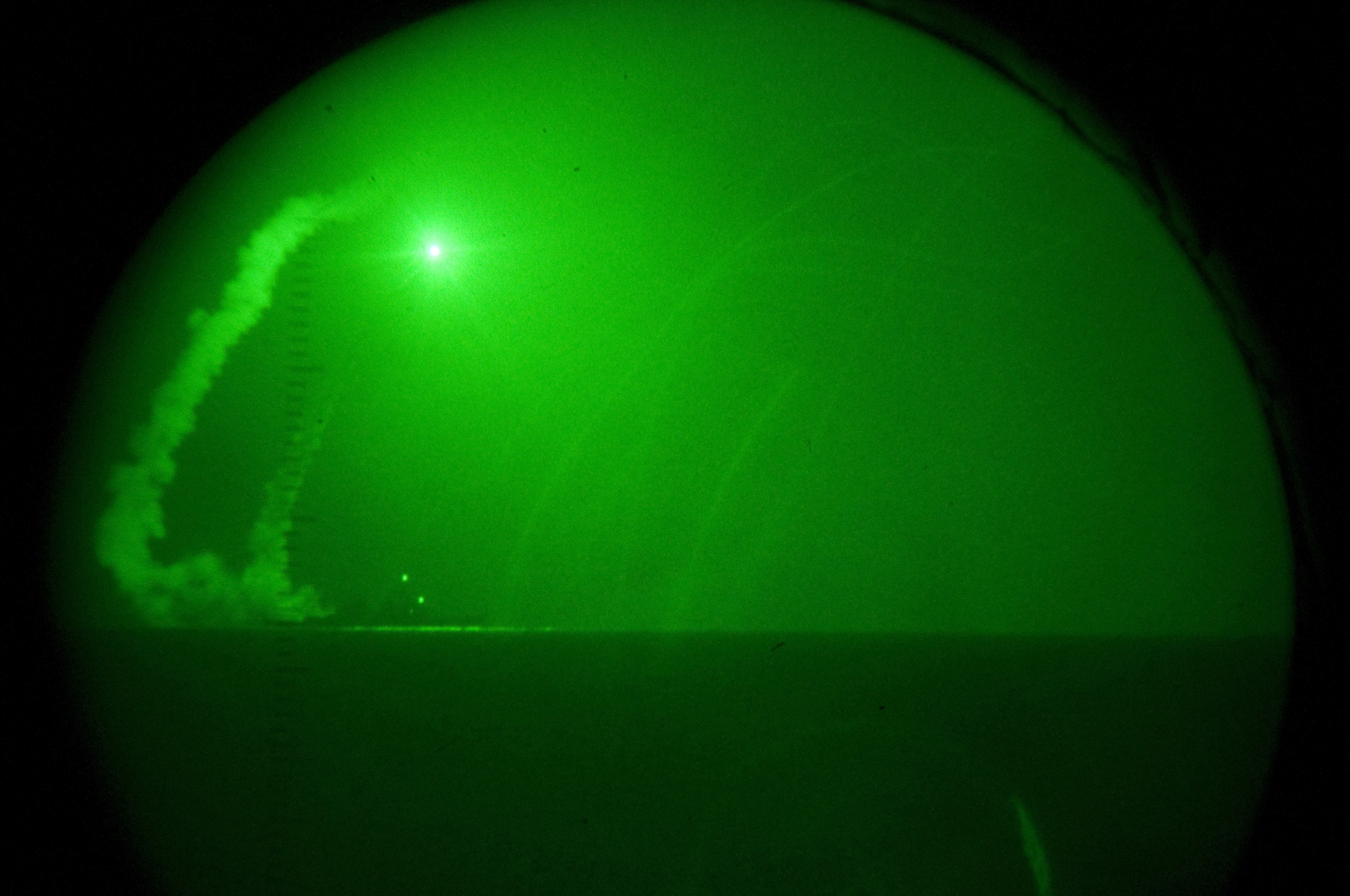 MEDITERANEAN SEA (March 19, 2011) Seen through night-vision lenses aboard amphibious transport dock USS Ponce (LPD 15), the guided missile destroyer USS Barry (DDG 52) fires Tomahawk cruise missiles in support of Operation Odyssey Dawn. This was one of approximately 110 cruise missiles fired from U.S. and British ships and submarines that targeted about 20 radar and anti-aircraft sites along Libya's Mediterranean coast. Joint Task Force Odyssey Dawn is the U.S. Africa Command task force established to provide operational and tactical command and control of U.S. military forces supporting the international response to the unrest in Libya and enforcement of United Nations Security Council Resolution (UNSCR) 1973. (U.S. Navy photo by Mass Communication Specialist 1st Class Nathanael Miller/Released)